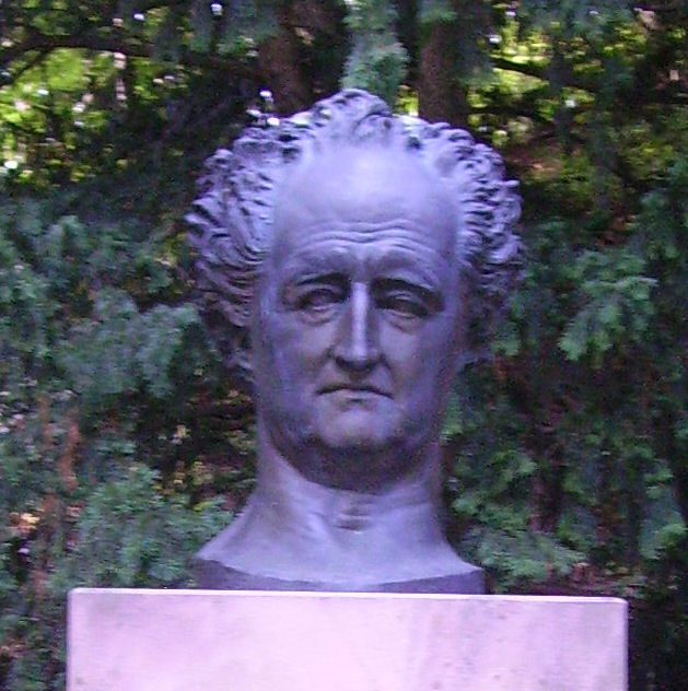 Monument in the Heidelberg castle (Heidelberger Schloss)